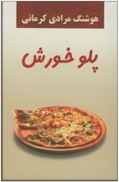 cover book